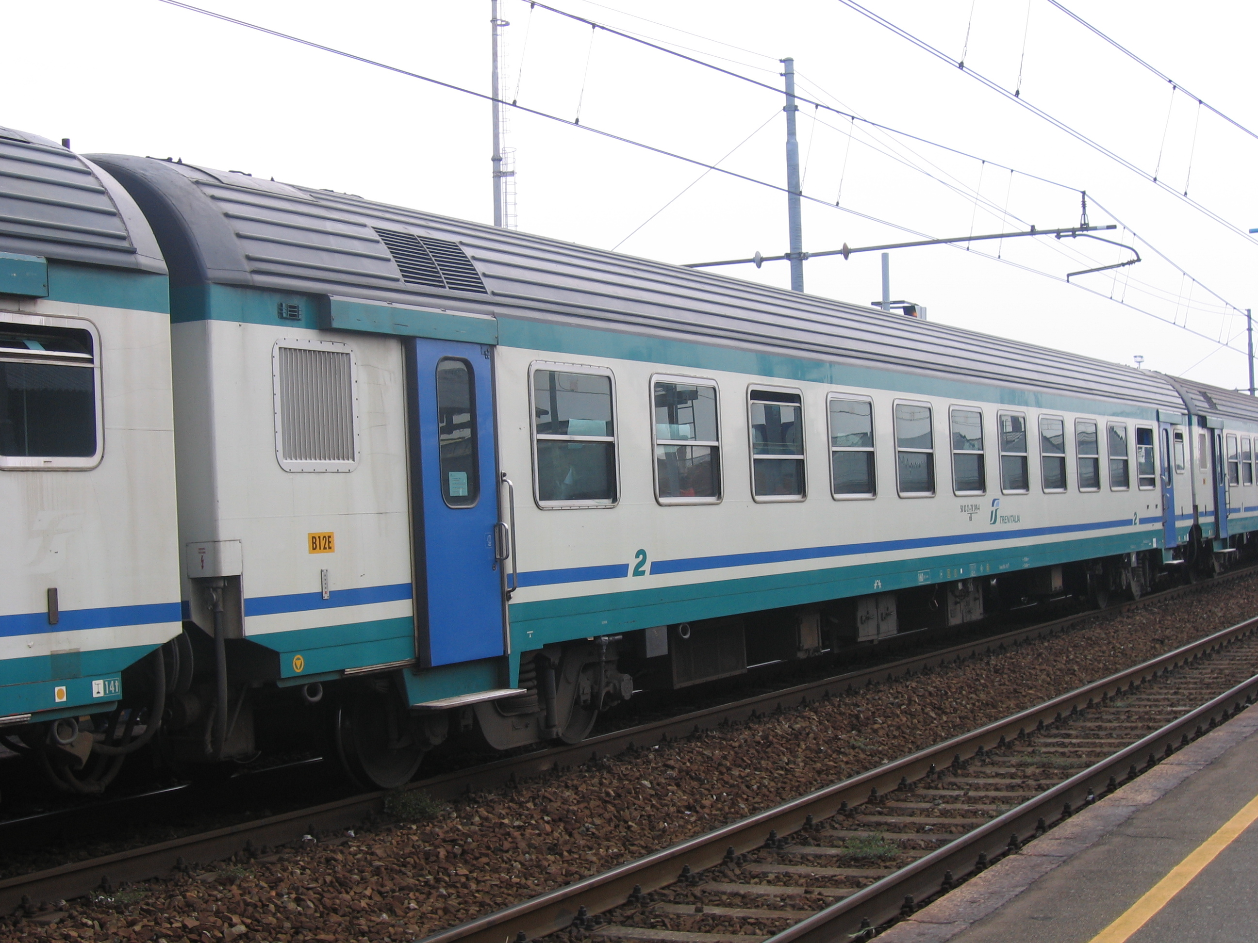 MDVE passenger car. Santhià (TO), Italy